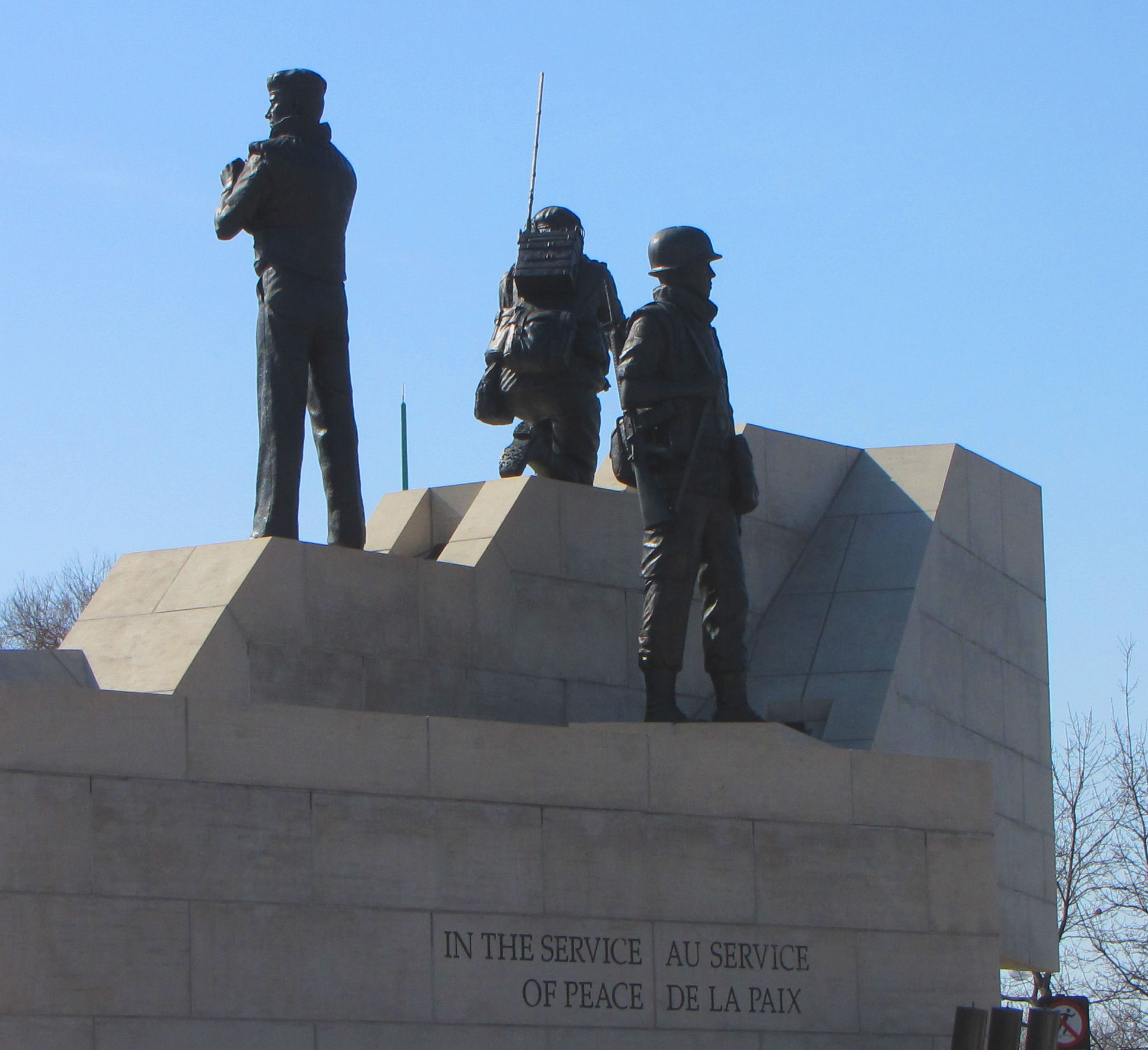 Reconciliation: The Peacekeeping Monument, Ottawa, Ontario, Canada